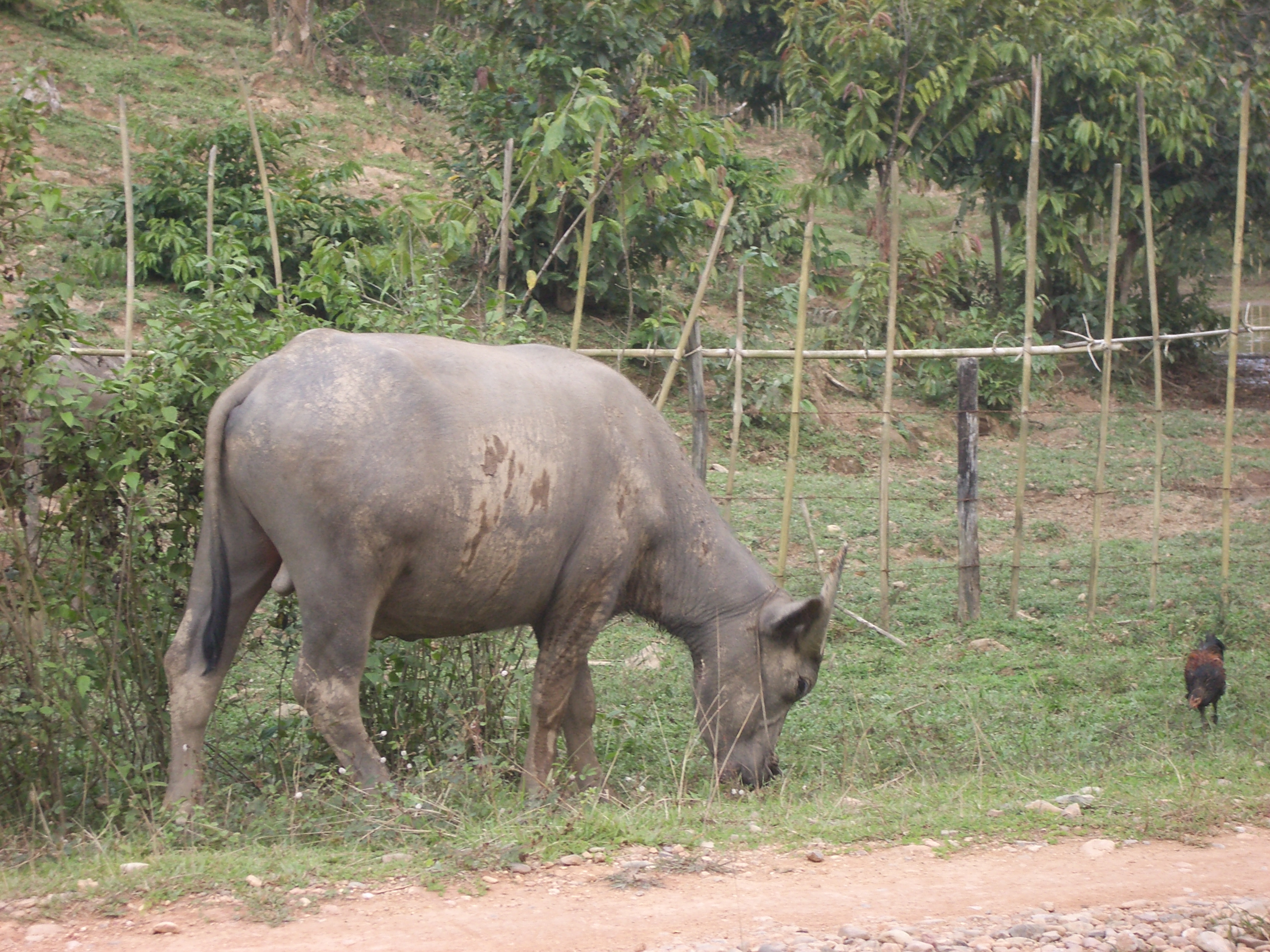 buffle lao vang vieng Laos Octobre 2006 Identification Problem: Buffle = Syncerus or Bubalus, both in Bovinae